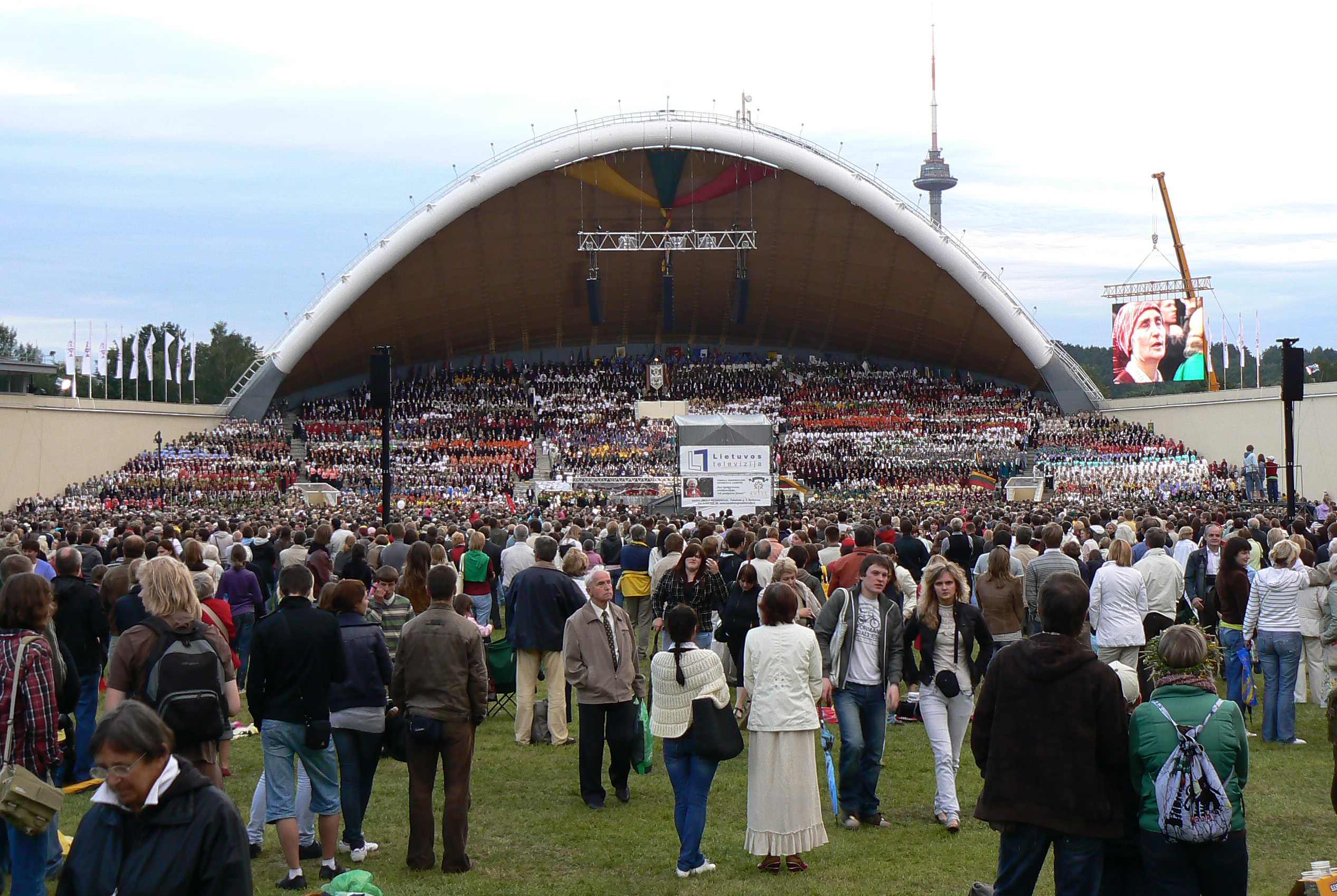 Song festival in Vilnius (2009).